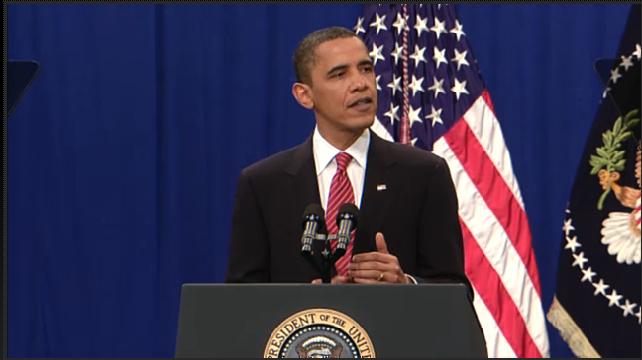 Screenshot of United States President Barack Obama delivering his speech on Afghanistan at the United States Military Academy at West Point, New York